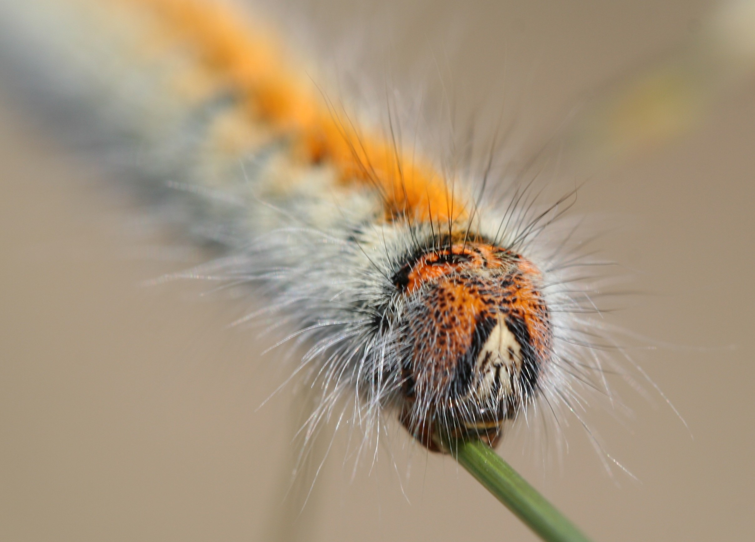 Lasiocampa_trifolii 17 June 2006 IJmuiden, the Netherlands